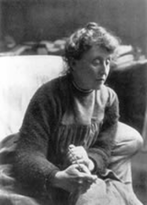 Evelyn De Morgan (30 August 1855-2 May 1919), English painter